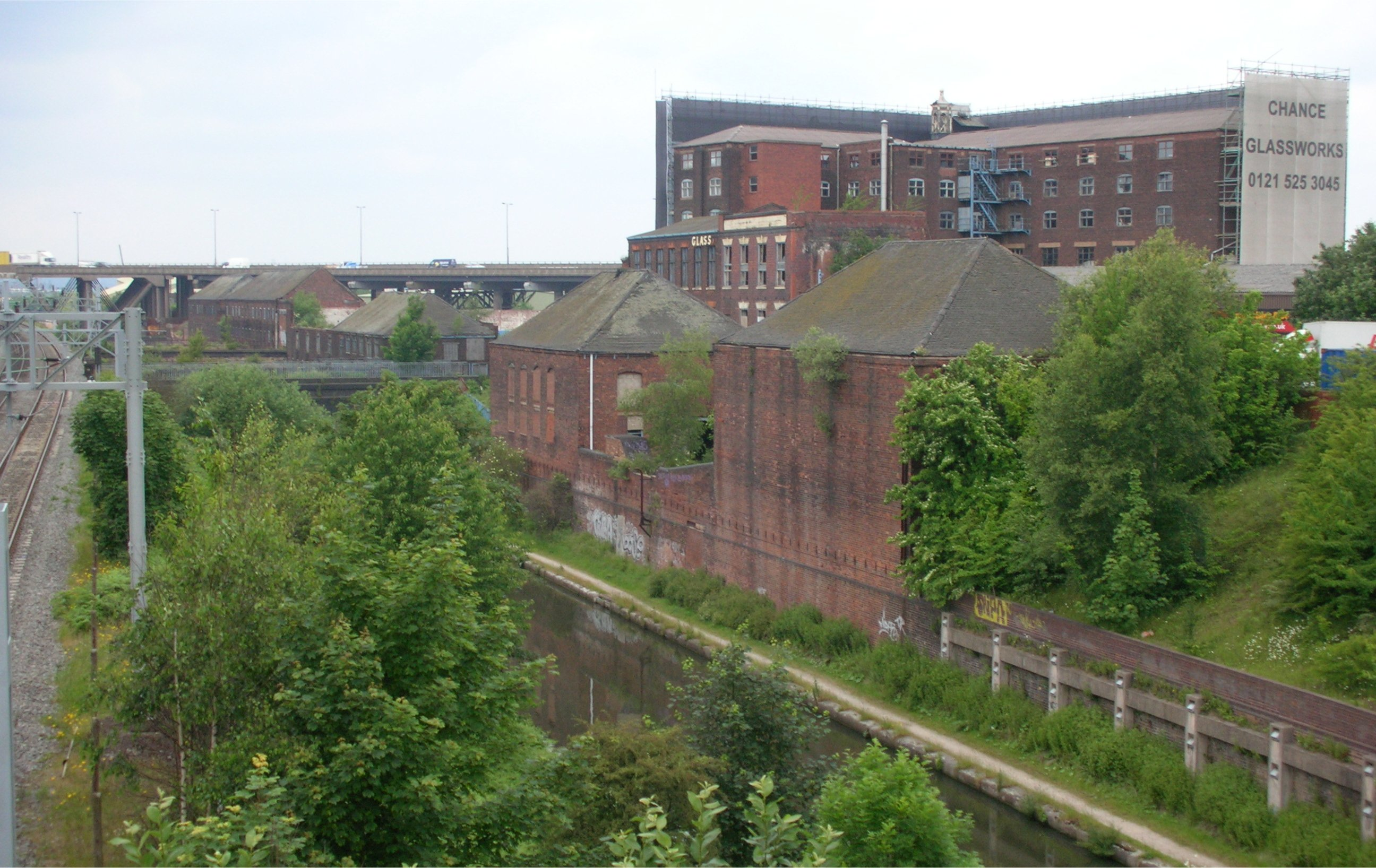 The extensive Chance's Glassworks in Spon Lane, Smethwick, West Midlands, England. All the visible buildings are part of the works. The canal is the BCN New Main Line, with the BCN Old Main Line parallel and behind the works. The railway is the Stour Valley line. The M5 motorway is in the background. Photographed by me 13 June 2007. Oosoom 23:01, 16 June 2007 (UTC)